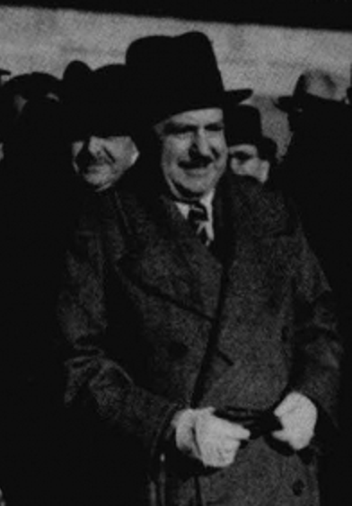 Comte Damien de Martel